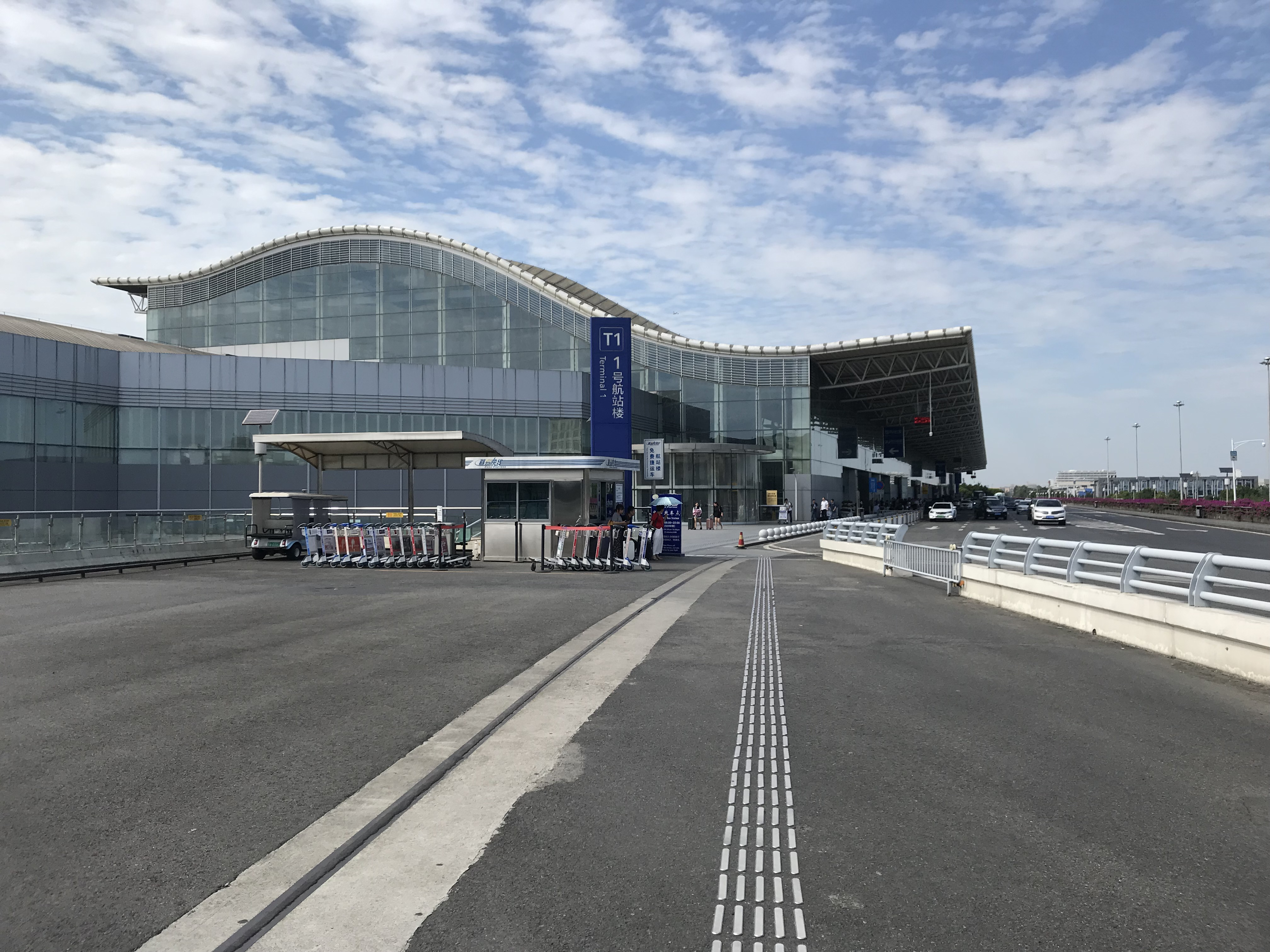 201908 Terminal 1 of Chengdu Shuangliu International Airport